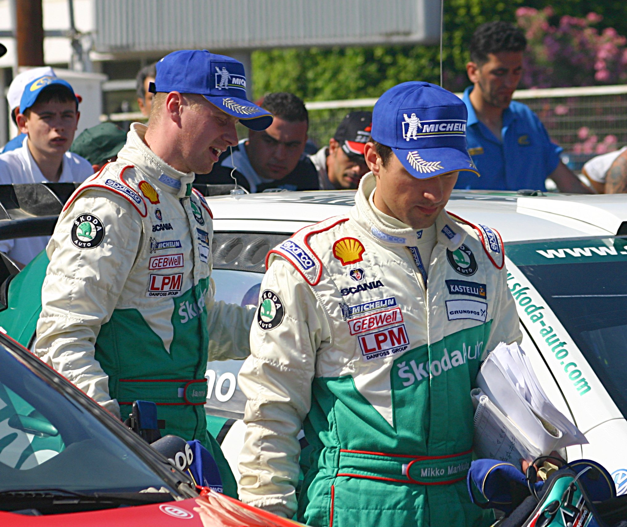 Janne Tuohino (FIN) (on the left) and Mikko Markkula (FIN) (on the right) (Škoda_Fabia_WRC) - Škoda Motorsport World Rally Team in Limassol, Cyprus, Greek Cypriot Rep. - Cyprus Rally 2005img_2842